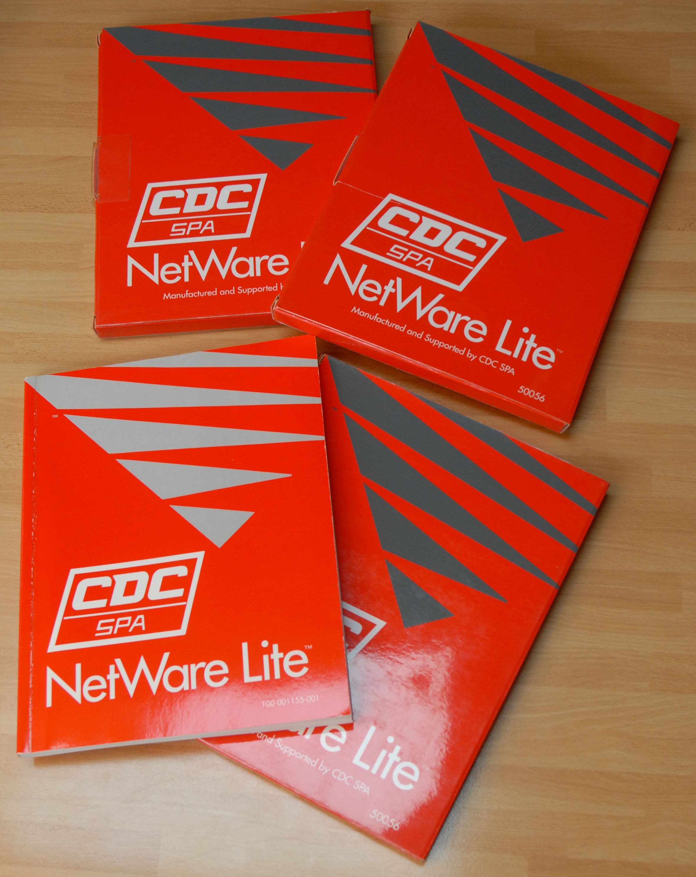 Novell Netware Lite CDC branded Italian OEM version (CDC S.p.A.)